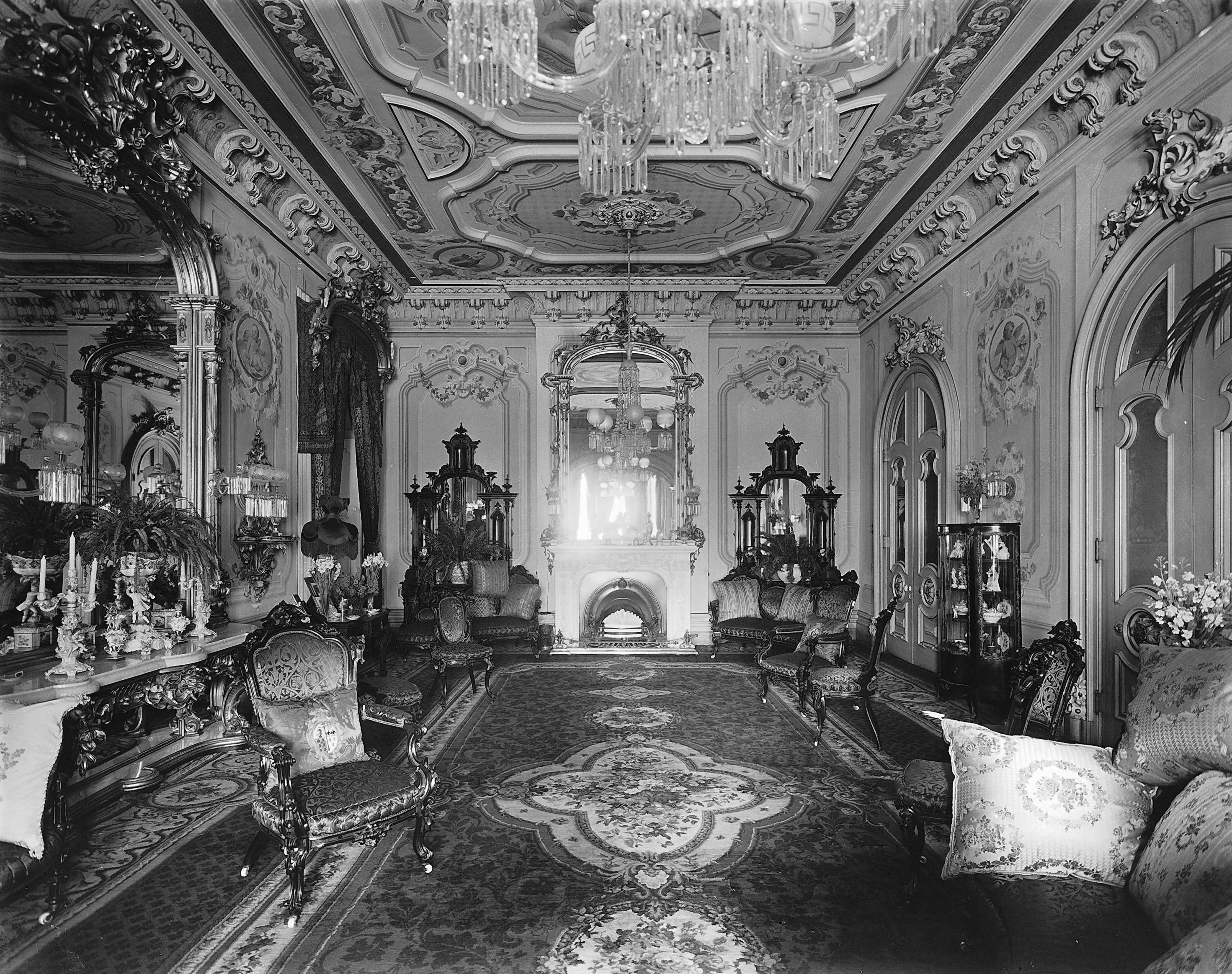 Living room, Lady Allan's house, "Ravenscrag", Montreal, QC, 1911; 1911, 20th century; Silver salts on glass - Gelatin dry plate process; 20 x 25 cm; Purchase from Associated Screen News Ltd.; © McCord Museum.